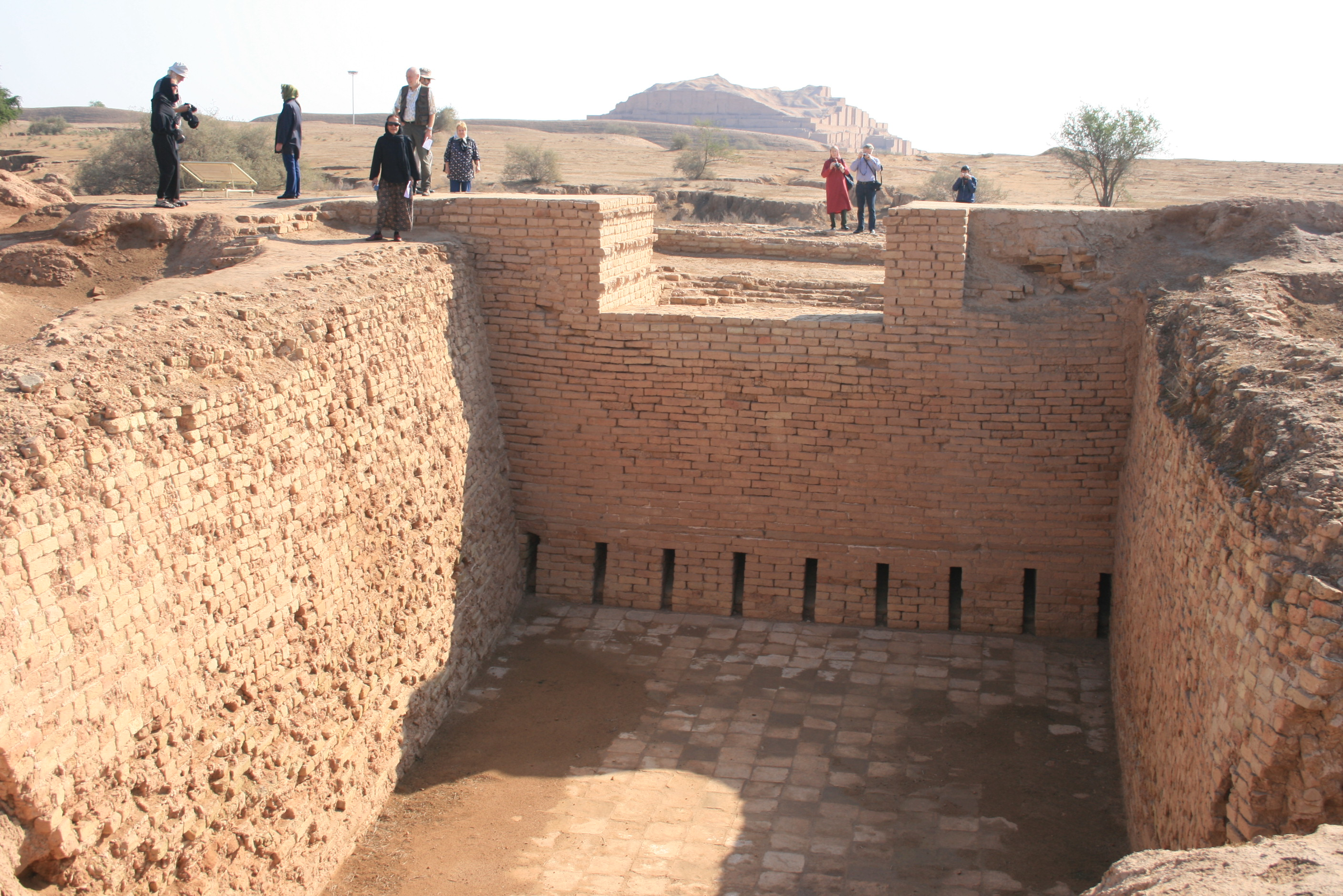 Water supply of Choga Zanbil; basin at the inlet of the Untash Napirisha channel